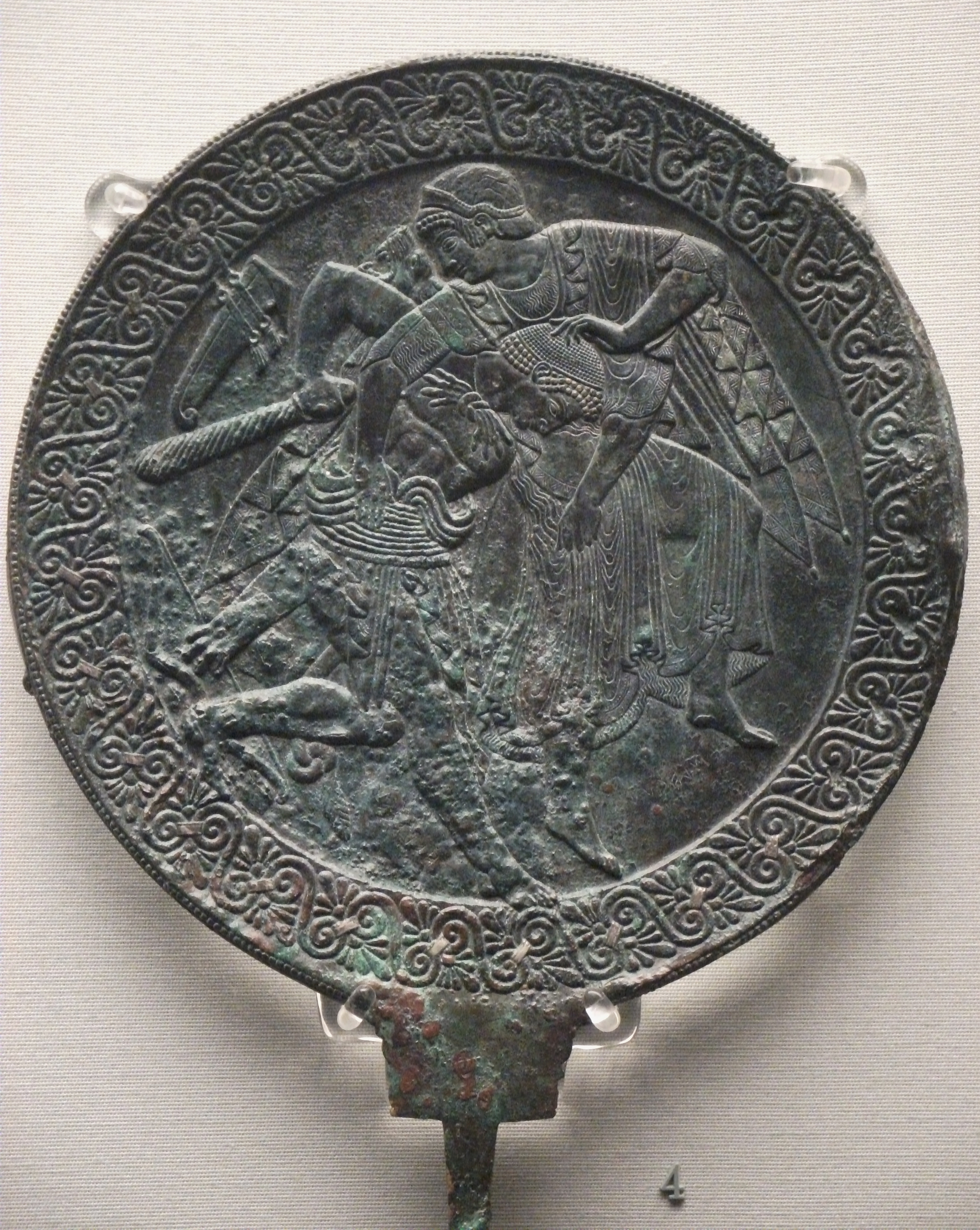 Mirror with Herekele seizing Mlacuch (a woman whose name is found nowhere else), Etruscan, about 500-475 BC